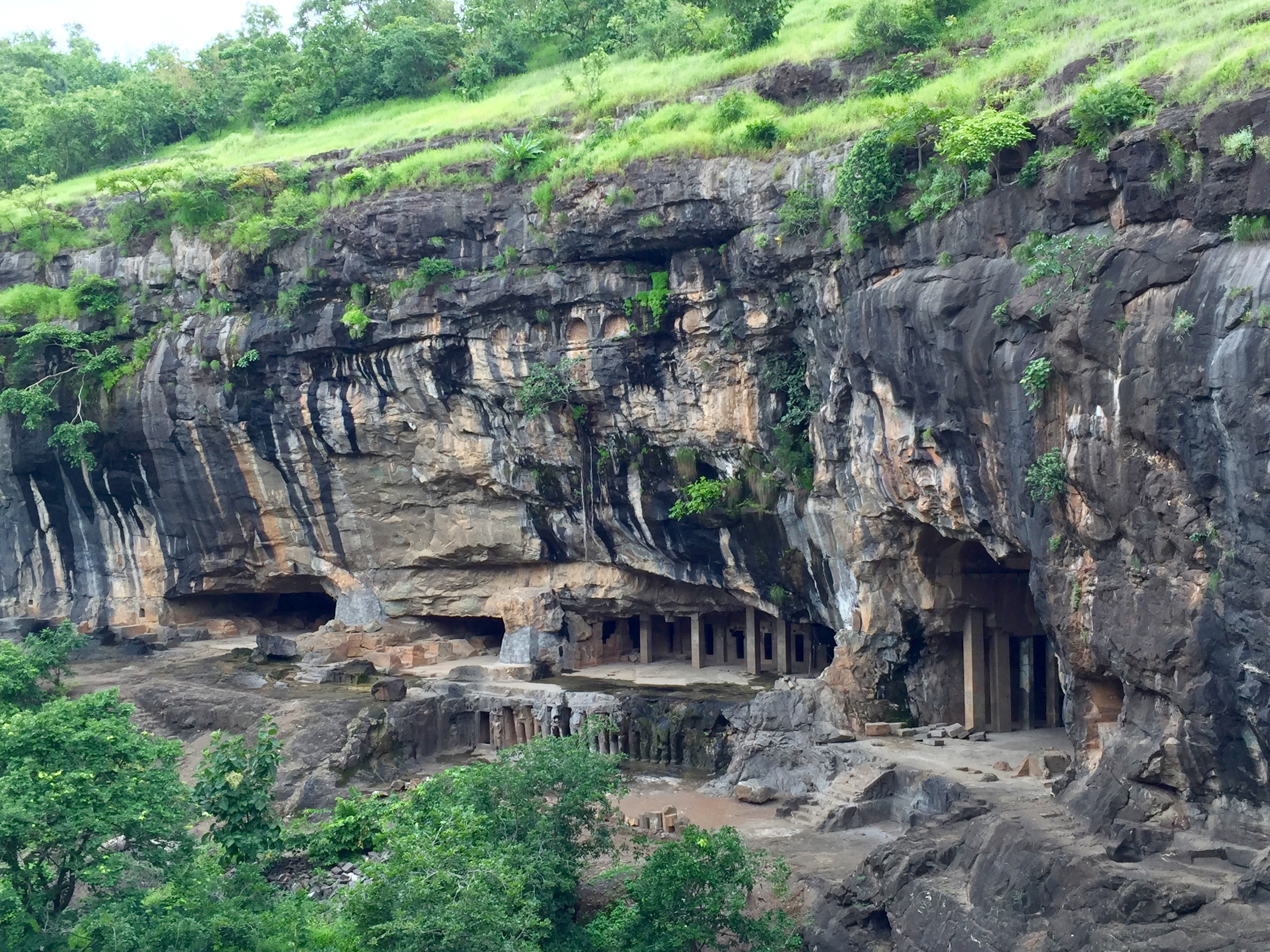 Ancient Buddhist Pitalkhora Caves, Kanada Maharashtra (Aurangabad District)